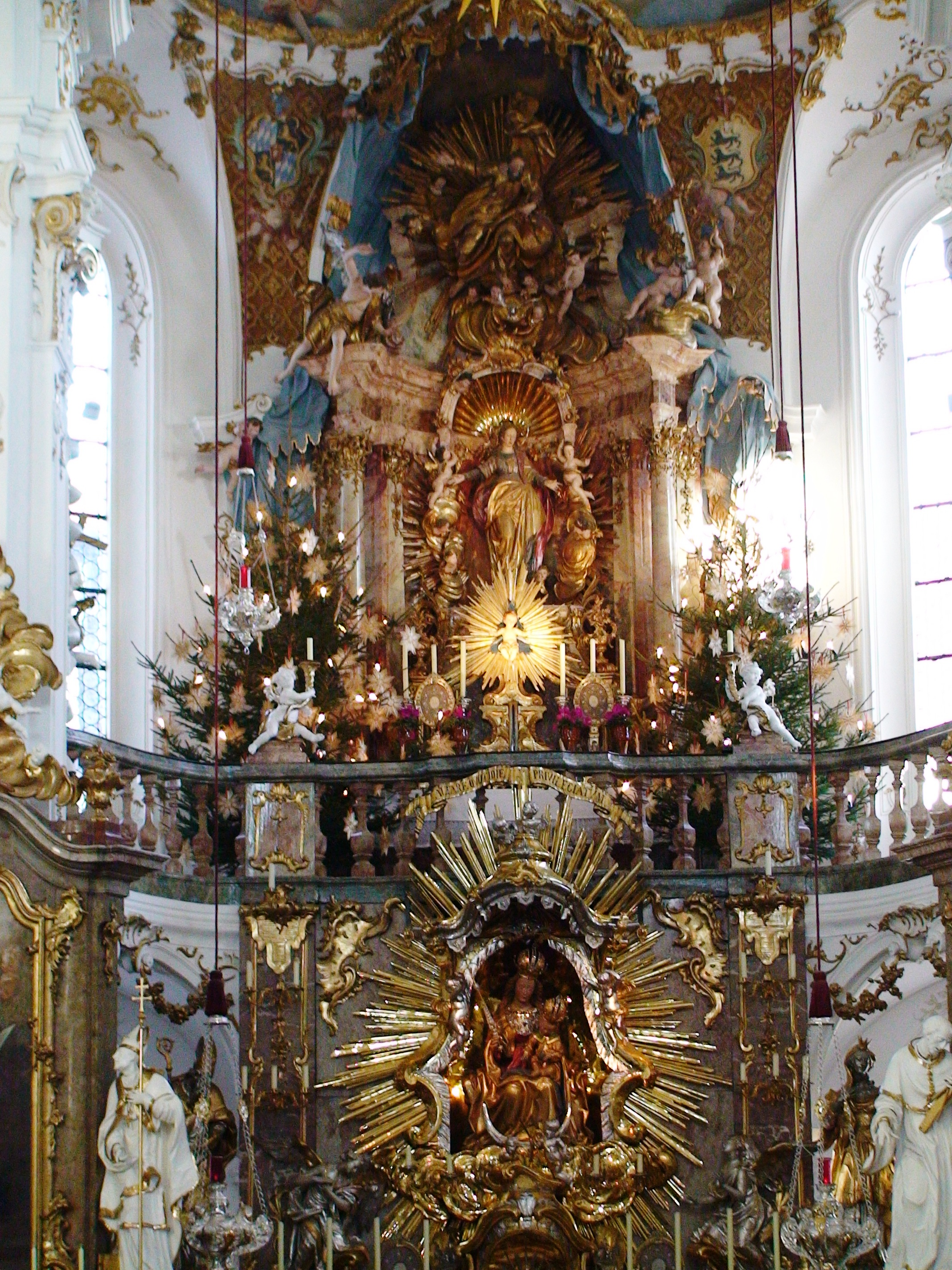 Altar with images of Virgin Mary and the Infant, at Andechs' Monastery (Kloster) near Munich, Germany.